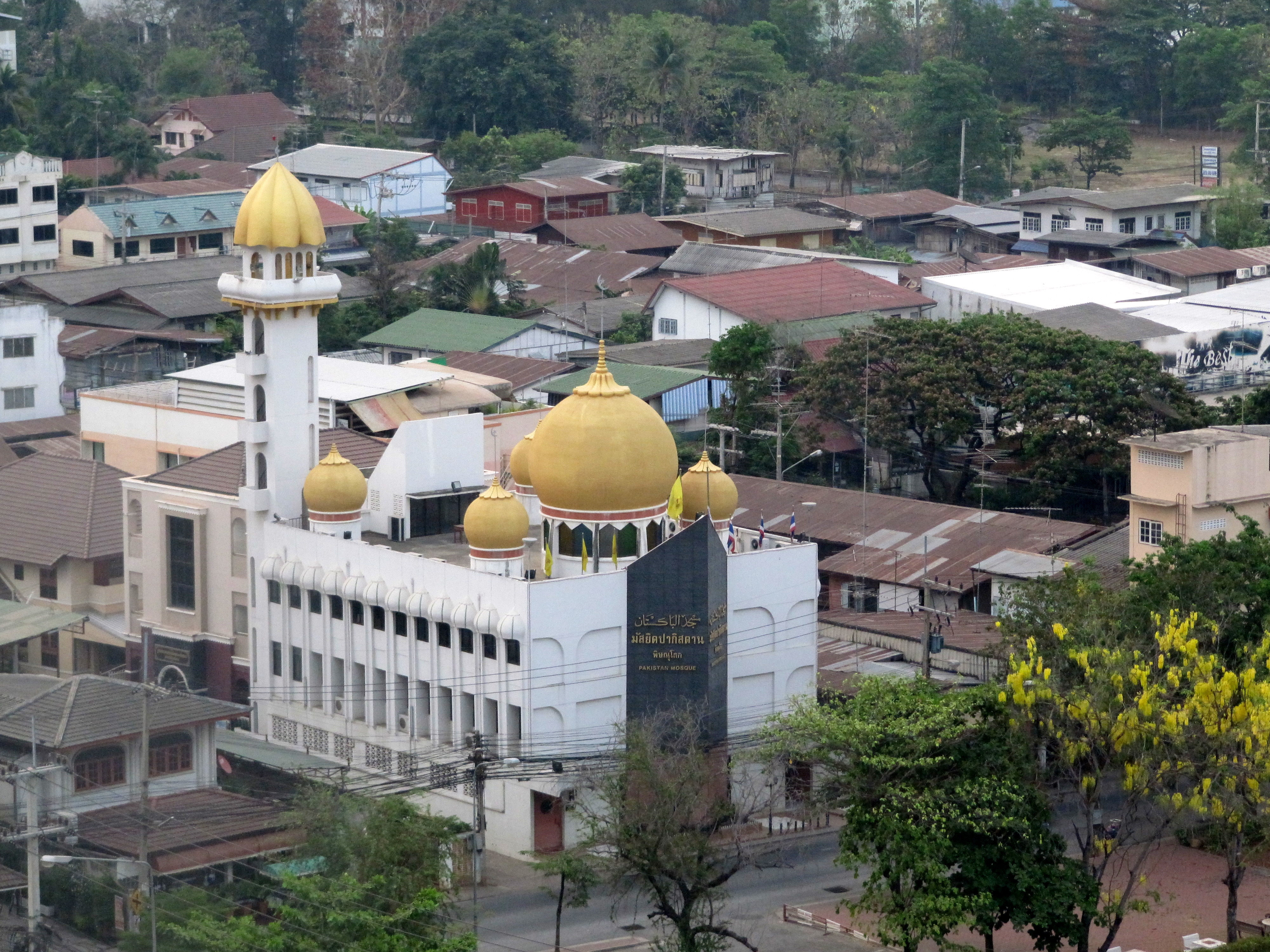 Pakistan Mosque, Phitsanulok, Thailand